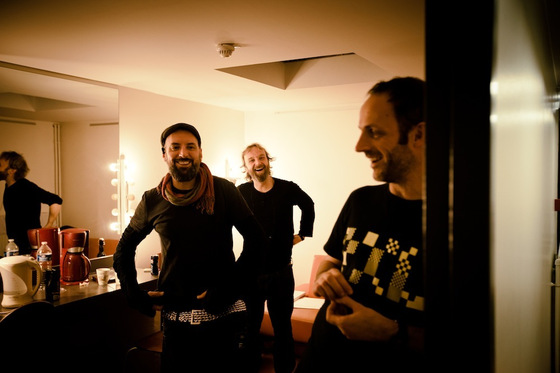 Fink backstage at CC Paul Bailliart, Massy, France, Nov 2011